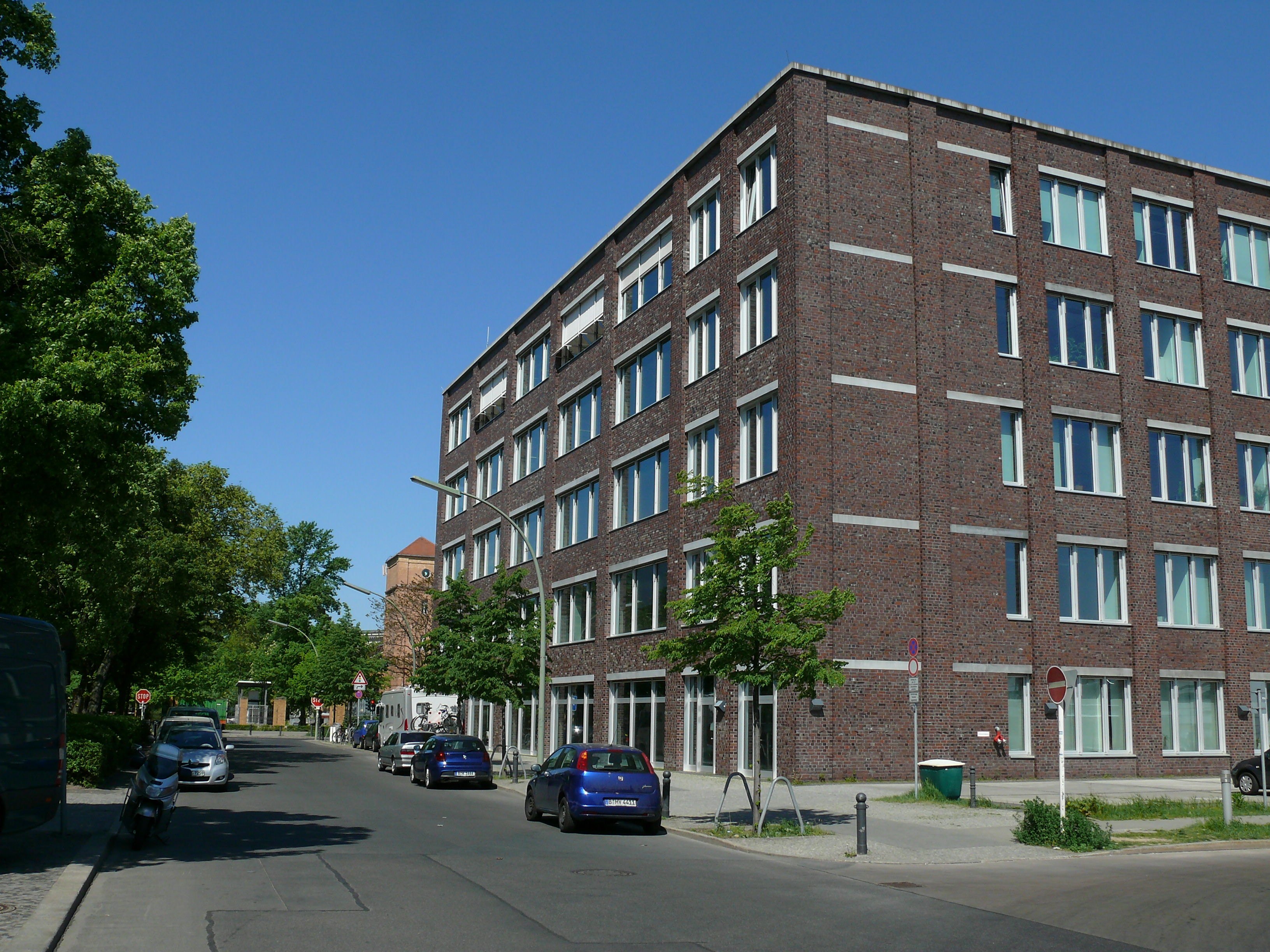 Berlin-Tiergarten Volkswagen-Universitätsbibliothek at Hertzallee